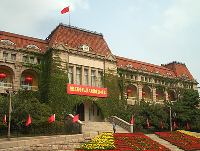 Former site of the headquarters of the German Administration in Qingdao, China (Shandong province)